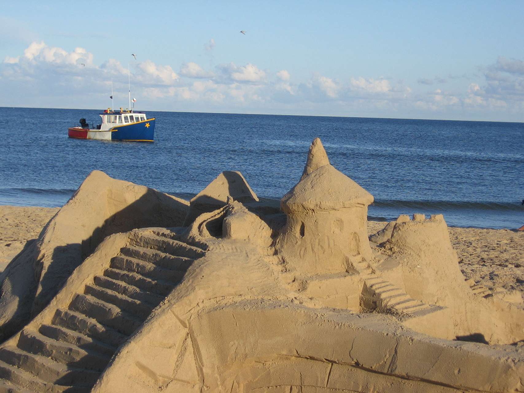 Sand art and play at Magdalen Islands